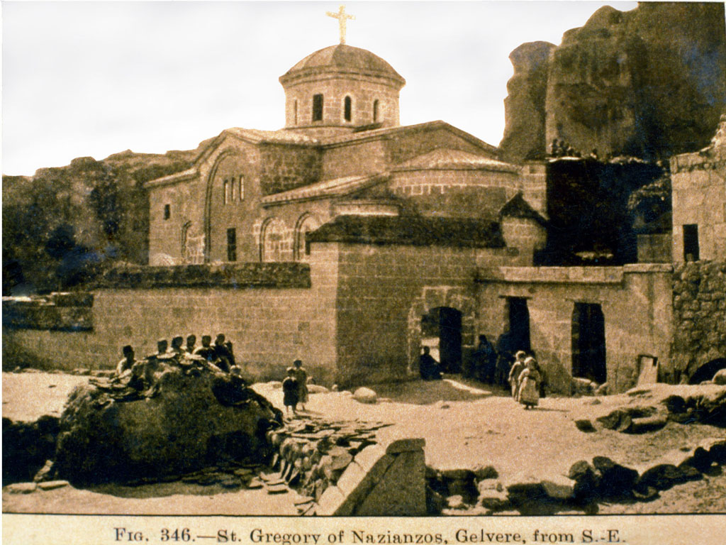 St. Gregory of Nazianzos Church in Gelveri